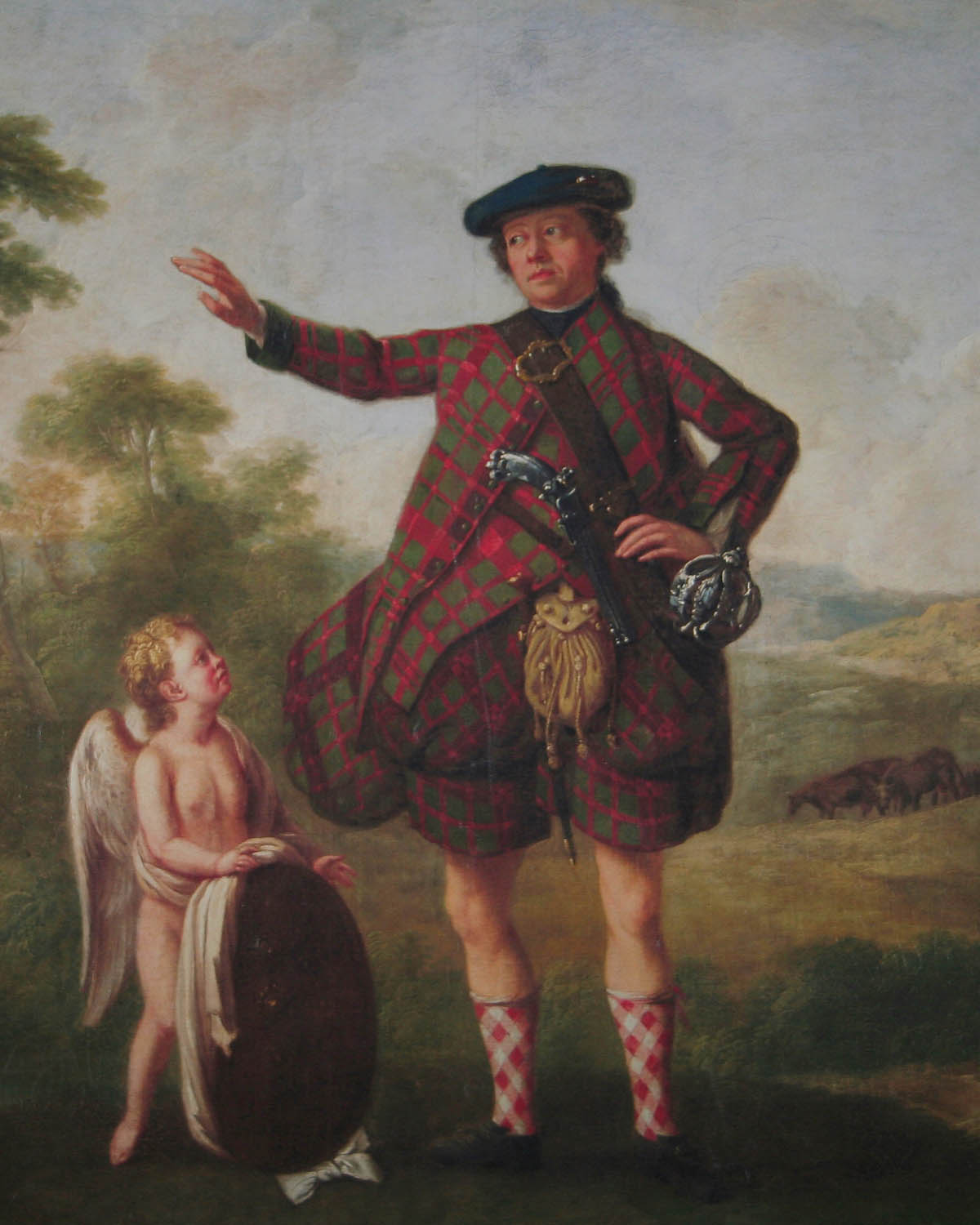 detail of C18th portrait of Dr. Stuart Threipland, by William Delacour (1700-1768), French born painter who was the first master of the Trustees' Academy in Edinburgh in the 1760s. This copied from a copy of the original, c/o National Galleries of Scotland (Duff House)Rodolph 22:37, 14 May 2007 (UTC)